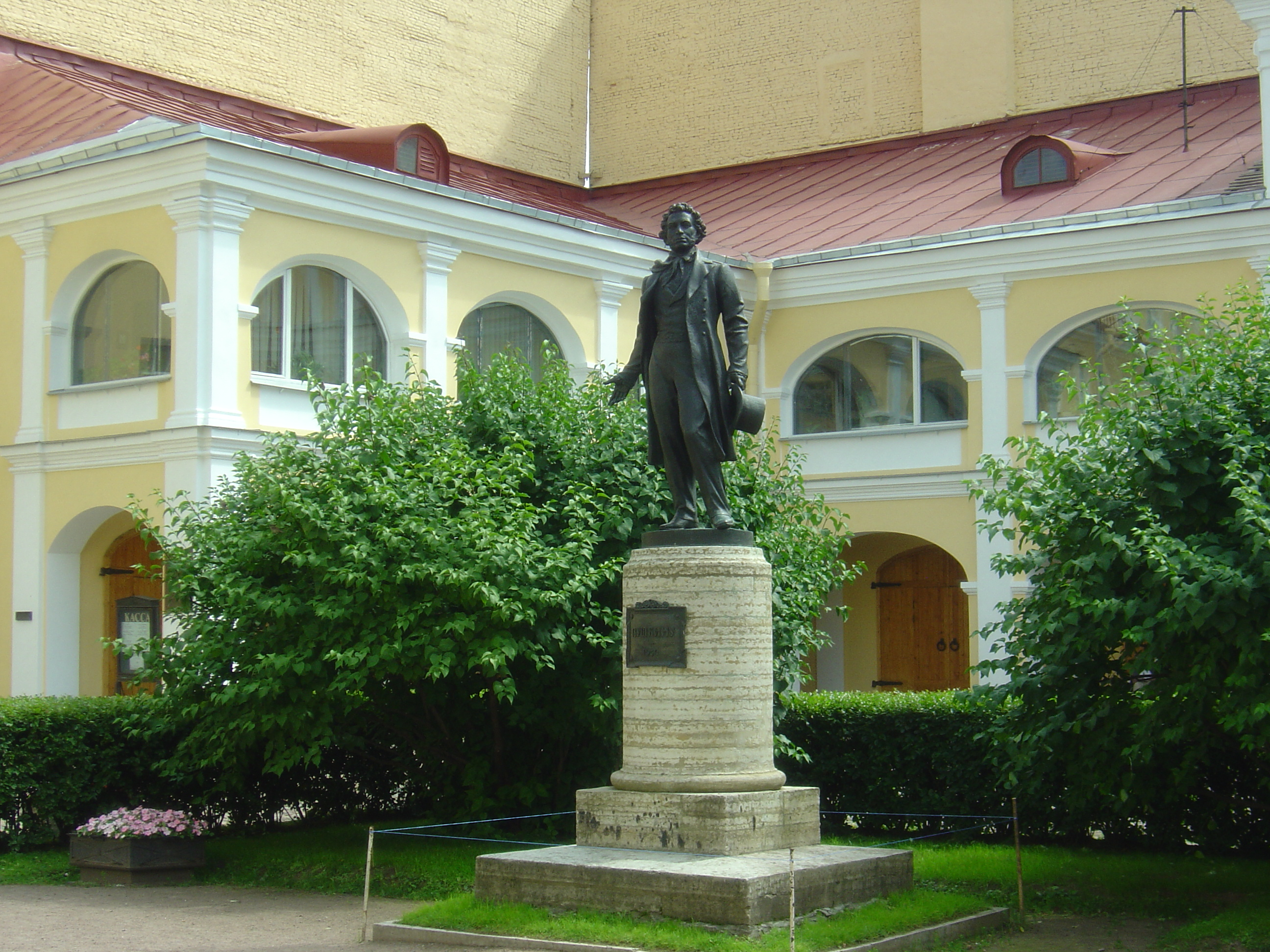 Puskhin House Museum, Courtyard and Statue